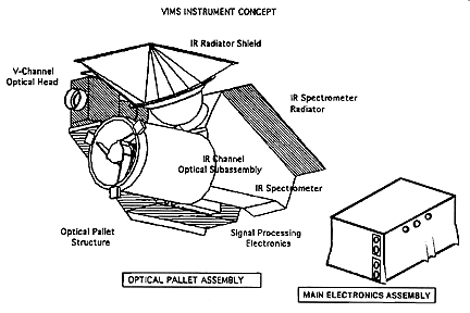 VIMS instrument of Cassini